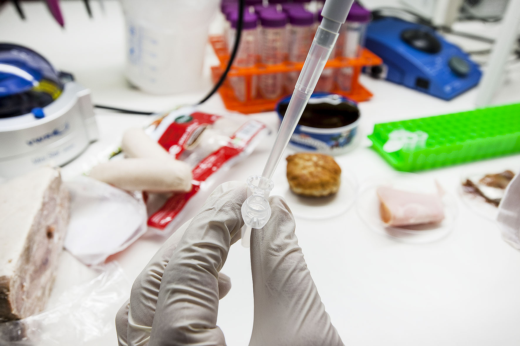 Ekstraksjon av arvestoff (DNA) fra julemat på molekylærlaboratoriet ved NTNU Vitenskapsmuseet. DNA extraction from traditional Norwegian Christmas food at the molecular systematic lab at NTNU University Museum. Foto: Åge Hojem, NTNU Vitenskapsmuseet. Photo: Åge Hojem, NTNU University Museum.